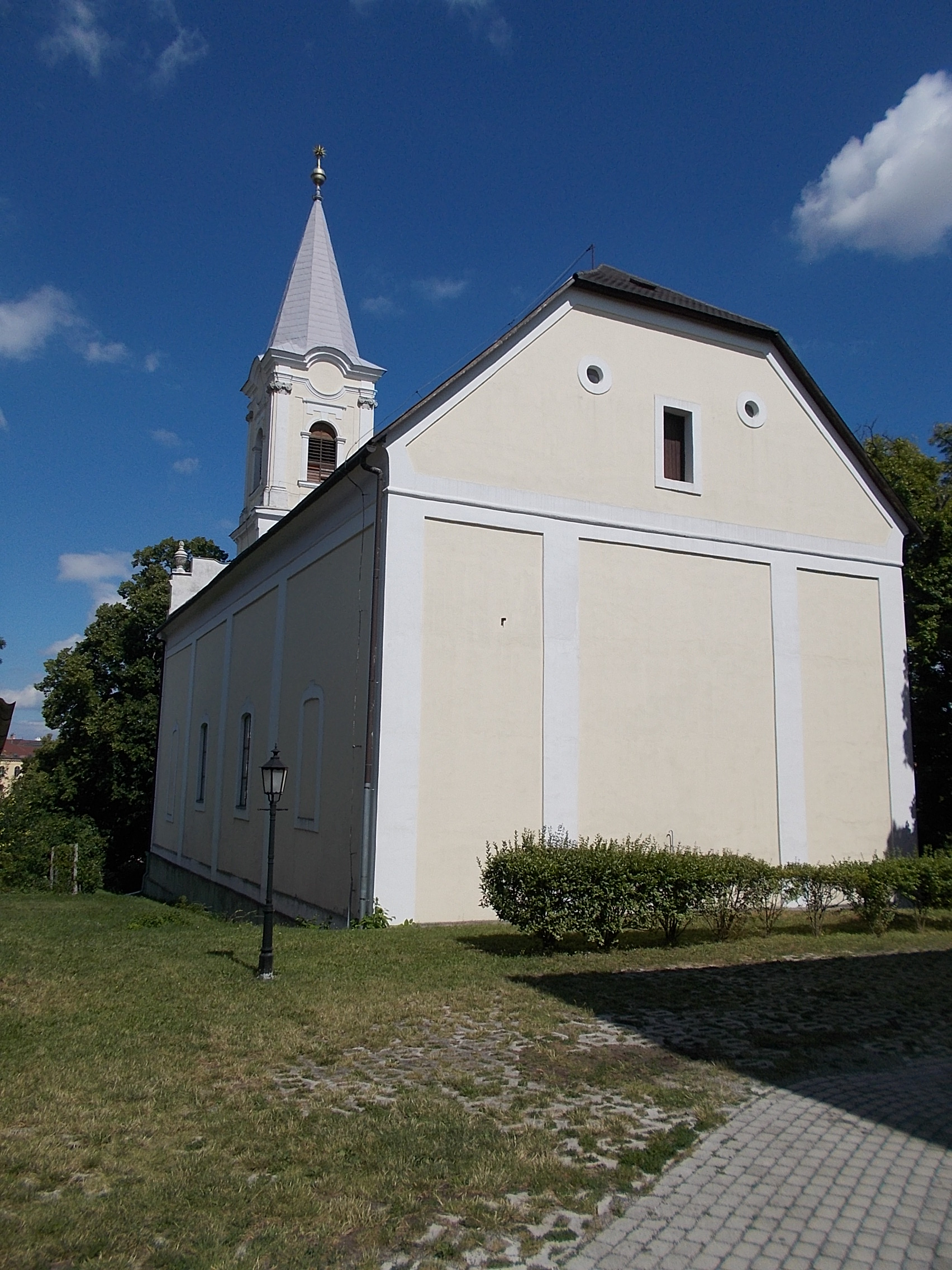 Reformed Church. - 24? Dózsa György Street, Jeruzsálemhegy, Veszprém, Veszprém County, Hungary.